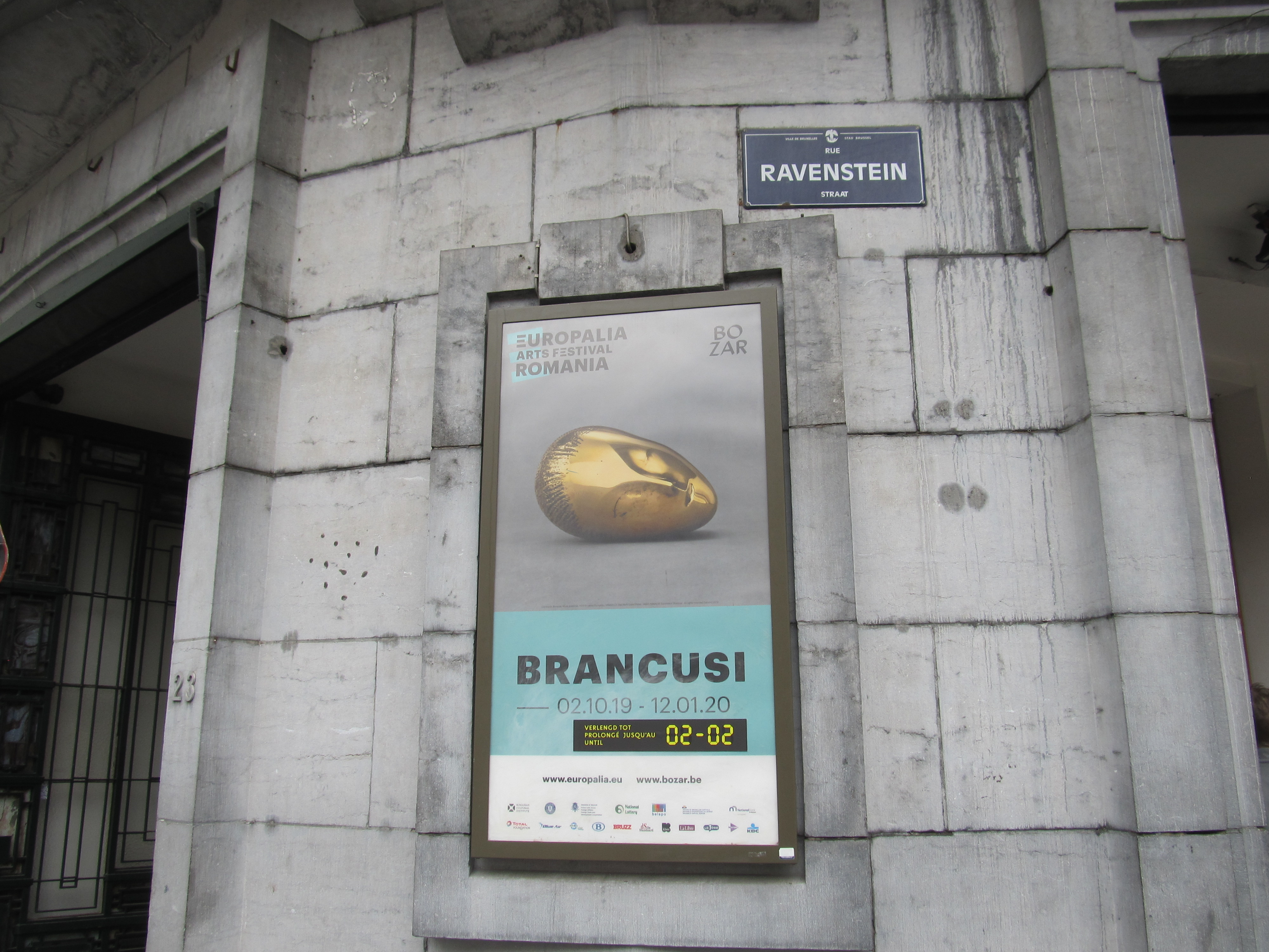 Poster of the Brâncuși exhibition at the Museum of Fine Arts BOZAR in Brussels during Europalia Romania 2019.